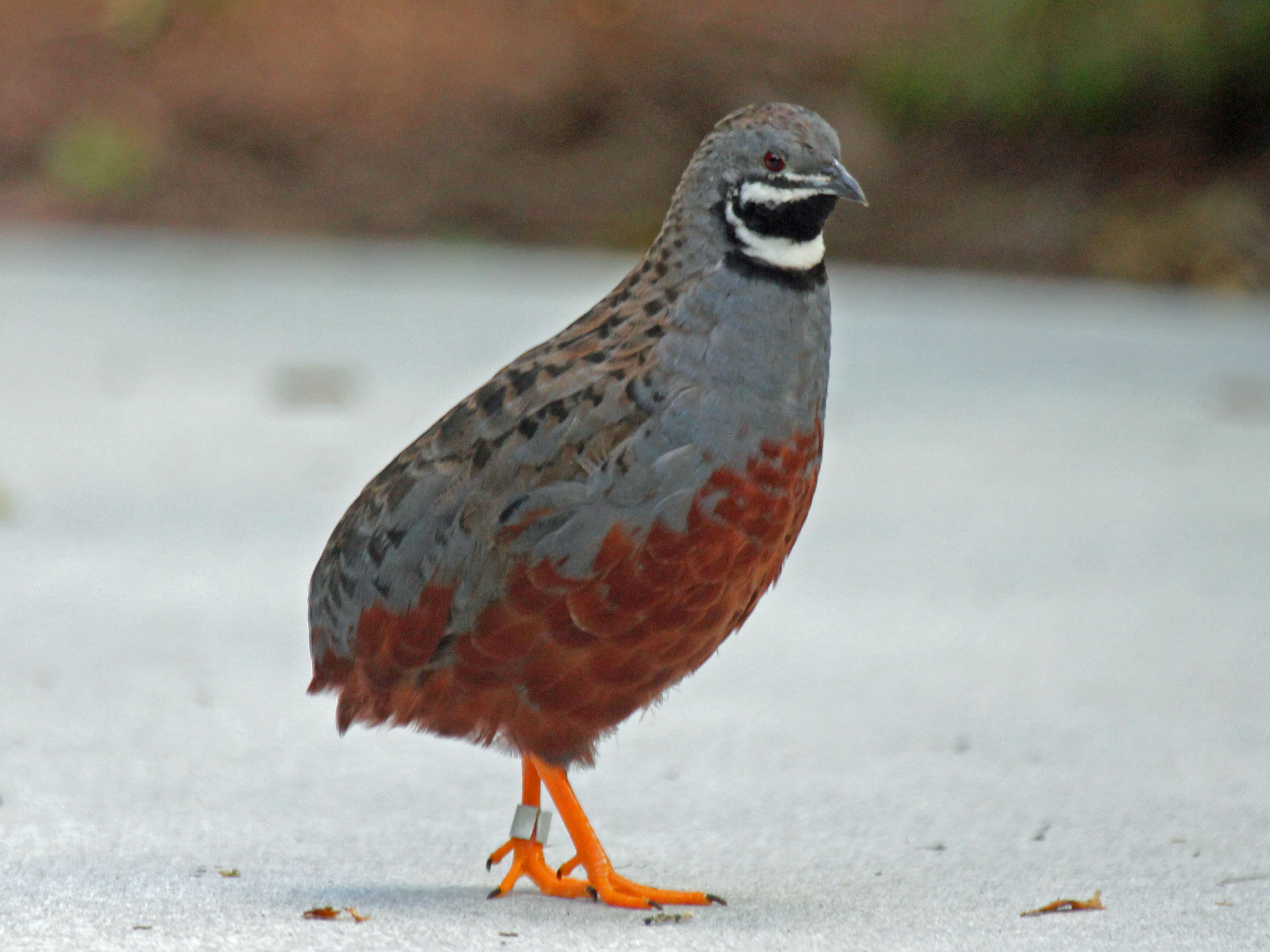 Chinese Painted Quail (Coturnix chinensis) - Butterfly World in Florida.